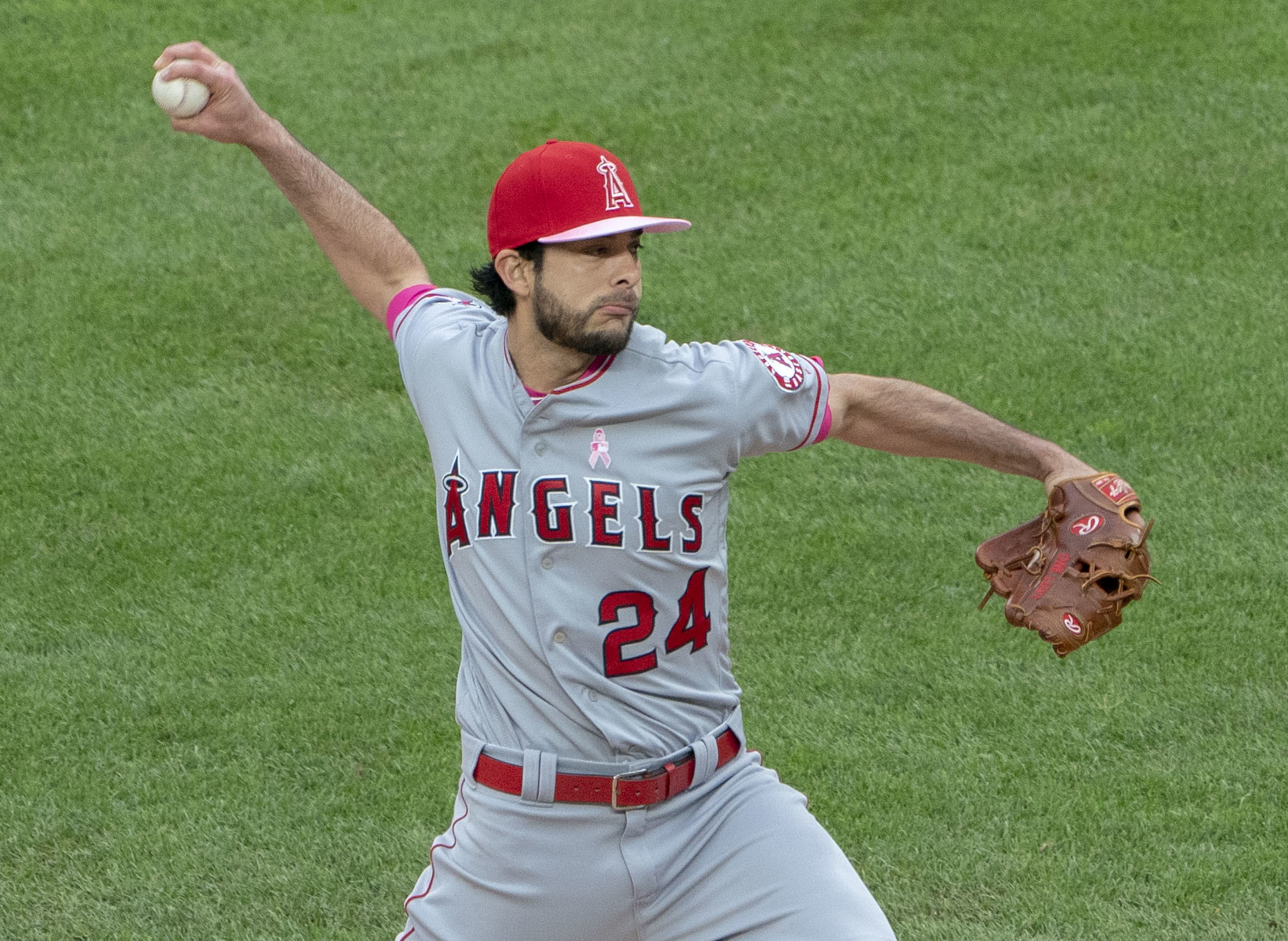 Noe Ramirez pitching in 2019